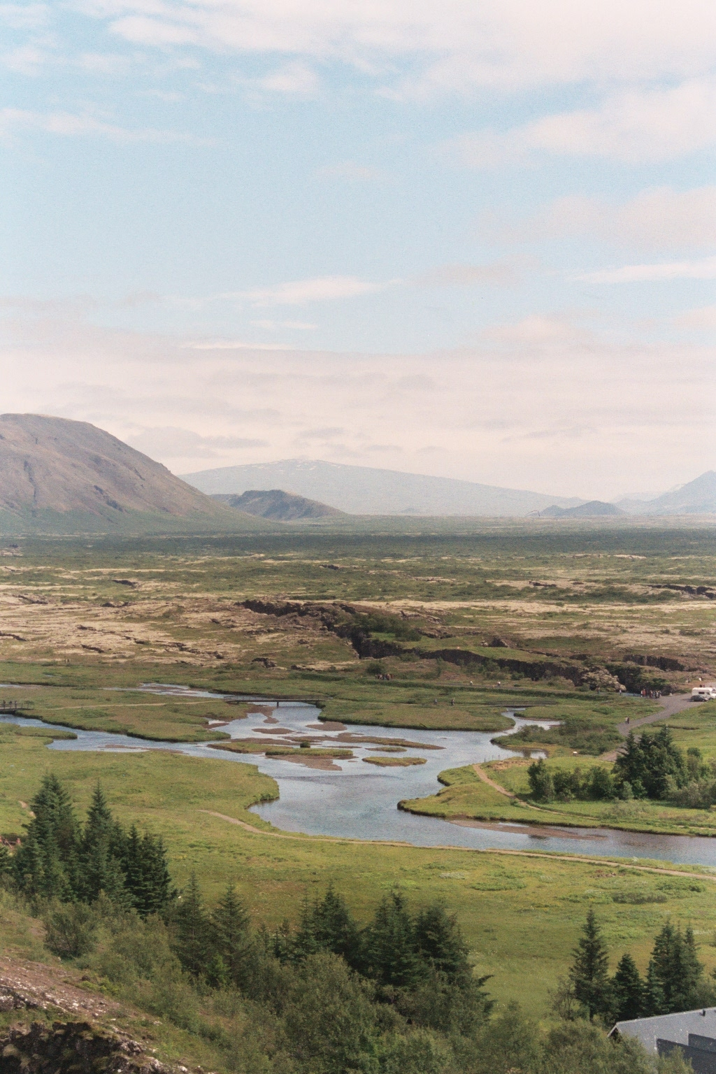 Þingvellir, Ok volcano, Iceland